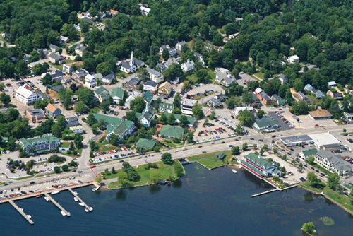 Meredith, NH